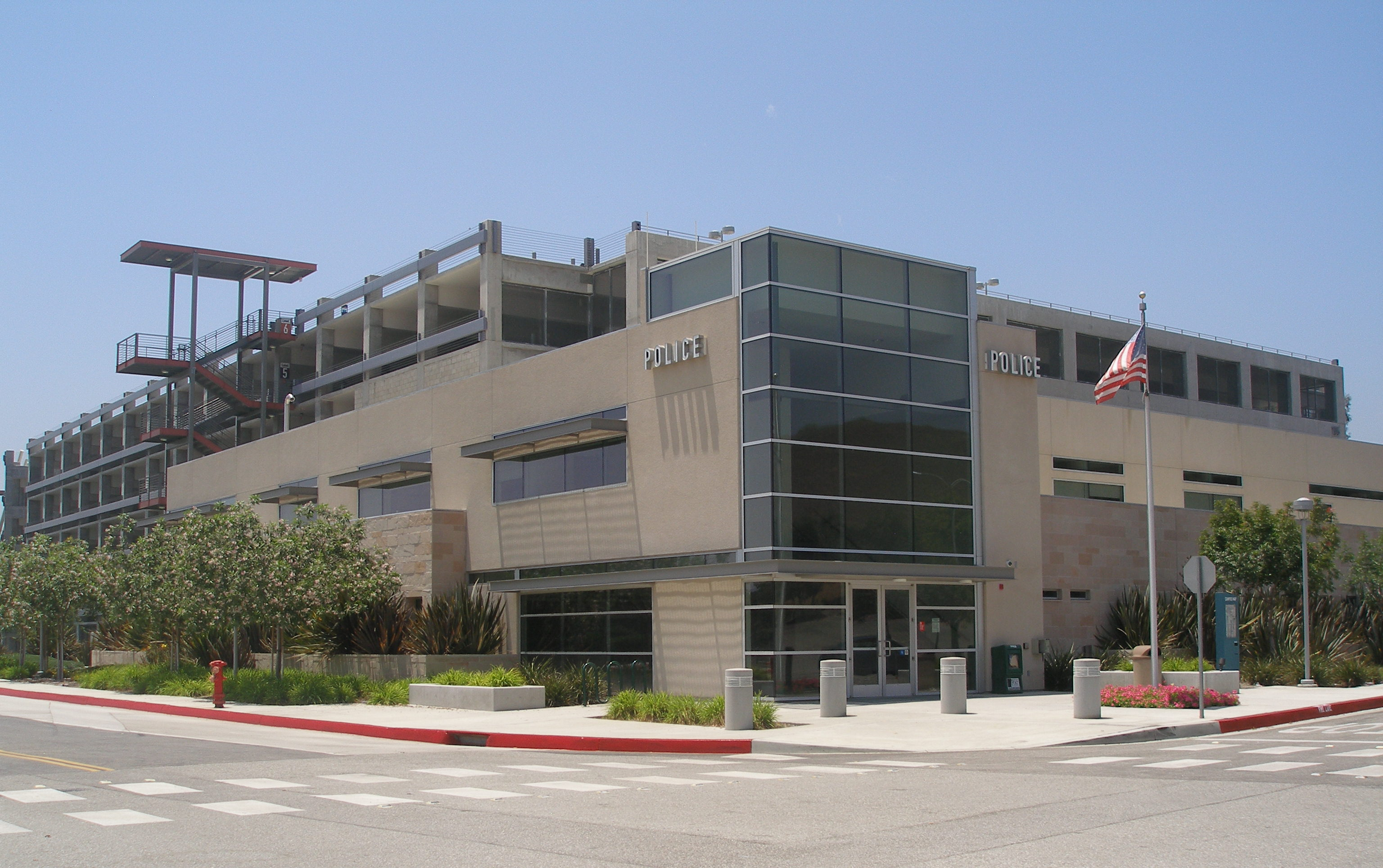 CPP PD office.